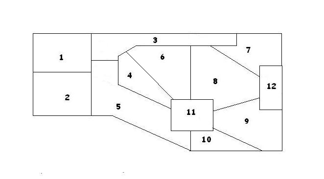 set covering example 2